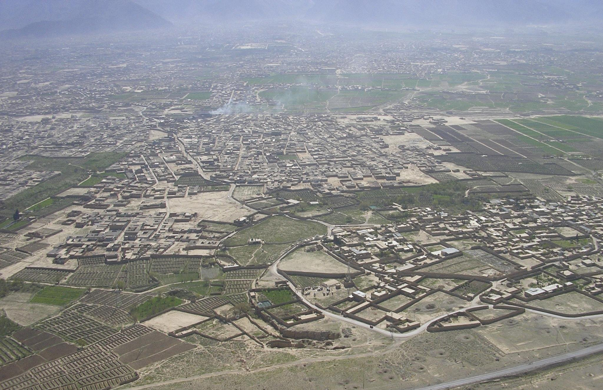 View of Kirani Quetta.